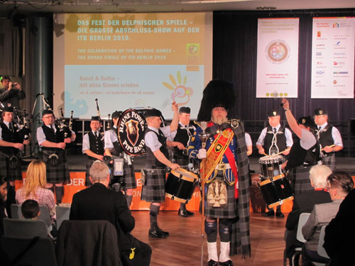 THE CELEBRATION OF THE DELPHIC GAMES – THE GRAND FINALE OF ITB BERLIN 2010 Rhine Power Pipe Band, Germany: 30 Rhineland bag pipe players and drummers presented Scottish music, impossible to miss and overlook.